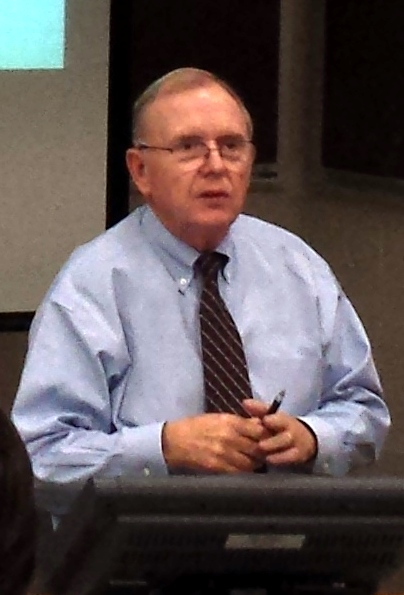 Chancellor emeritus and industrial engineering distinguished professor at the University of Arkansas John White teaches a review of engineering economics for students in Bell Engineering Center